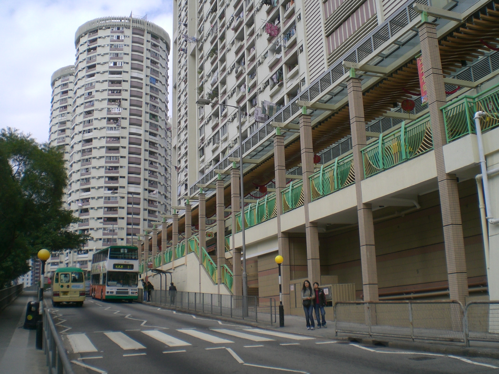 大坑 勵德邨 勵德邨道